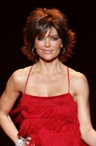 Lisa Rinna modeling at The Heart Truth Fashion Show 2008